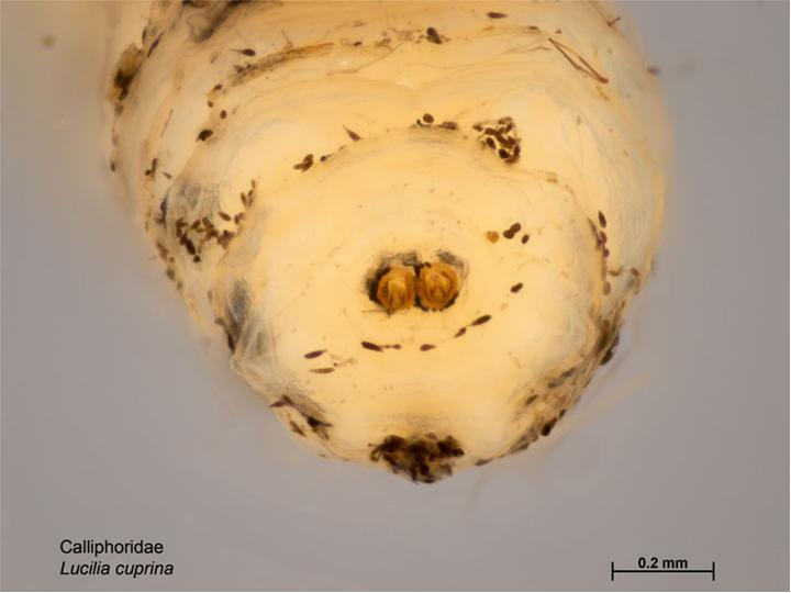 Lucilia cuprina, Prosterior Spiracle - Larvae : Diagnostic Notes : Abdomen integument metallic green. Fore femur metallic green. Thoracic squama bare. Wings hyaline; stem vien bare; basicosta yellow; subcostal sclerite pubescent. Suprasquamal ridge with posterior parasquamal tuft. Supraspiracular convexity pubescent. Postocular microtrichial pile (minute hairs) on vertex directed transversely, smooth, with a sharp boundary where pile changes direction. Humerus with 2-4 hairs. Quadrant between anterior margin and discal setae with 15-25 setulae. Male : Hairs on abdominal sternites much longer than on hind femur and tibia.